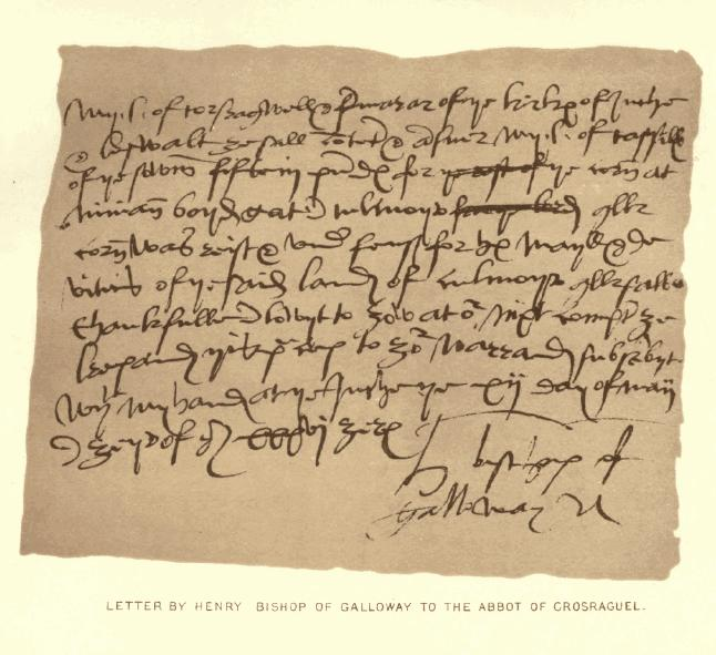 Image of a letter from Henry Wemyss, Bishop of Galloway, to William Kennedy, Abbot of Crossraguel, dated December 5, 1536